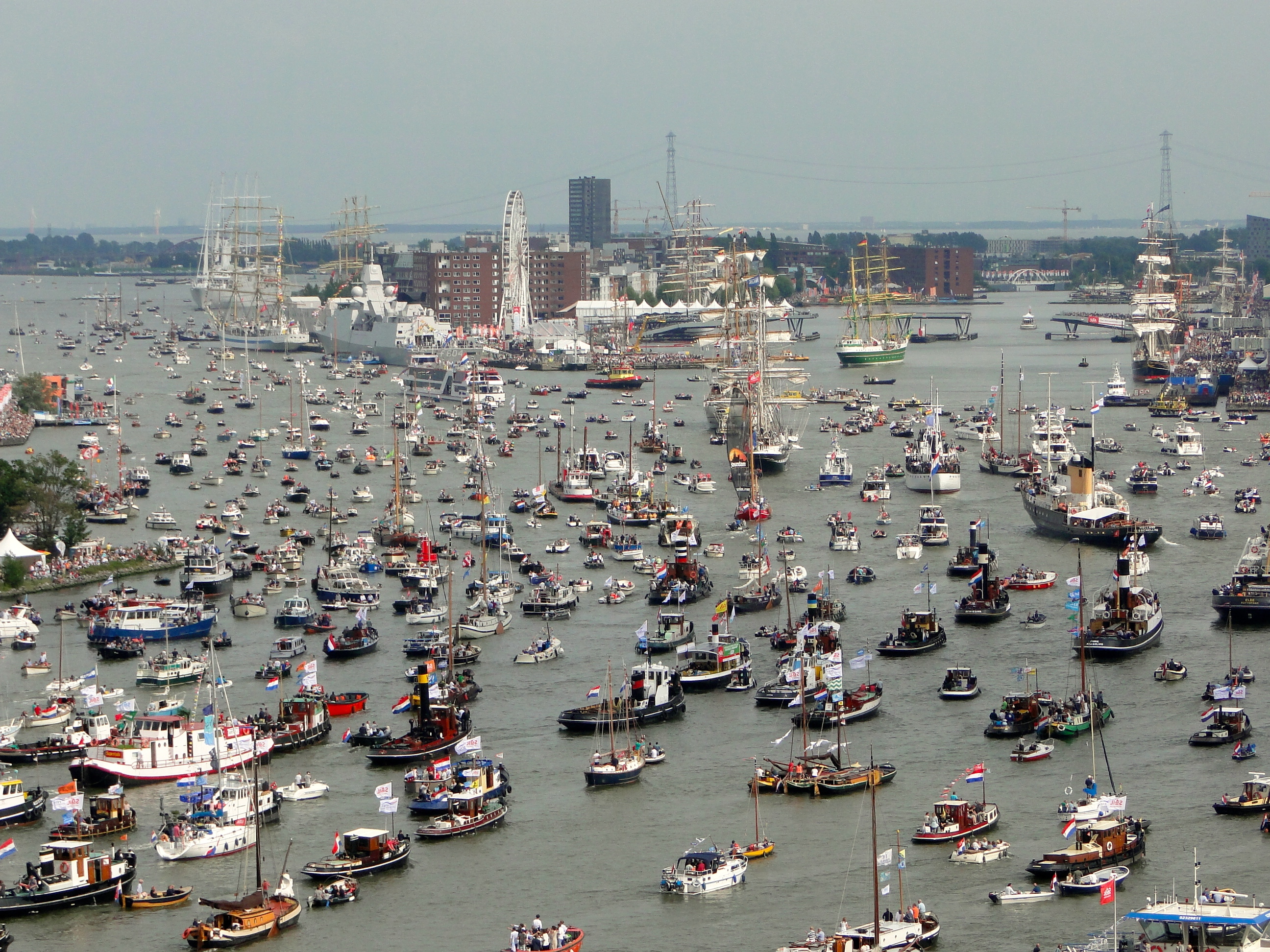 Very busy IJ during arrival parade of the tall sail ships during Sail 2015 in Amsterdam